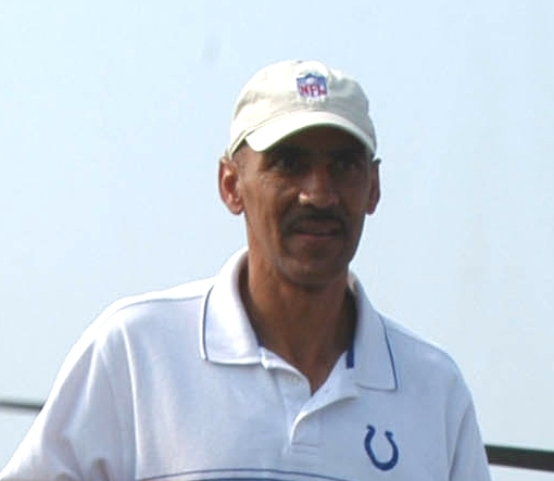 Tony Dungy, the head coach of the Indianapolis Colts football team, arrives onboard USS Blue Ridge (LCC 19) via helicopter. (Cropped from a U.S. Navy photograph)